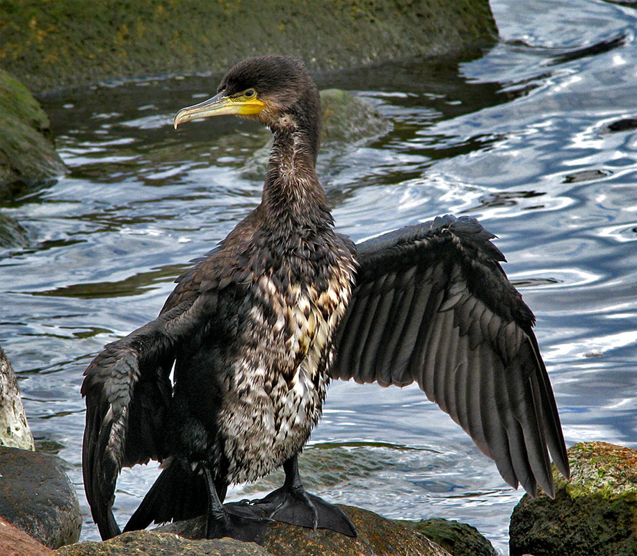 Great Cormorant (Phalacrocorax carbo) with minor oil damage.